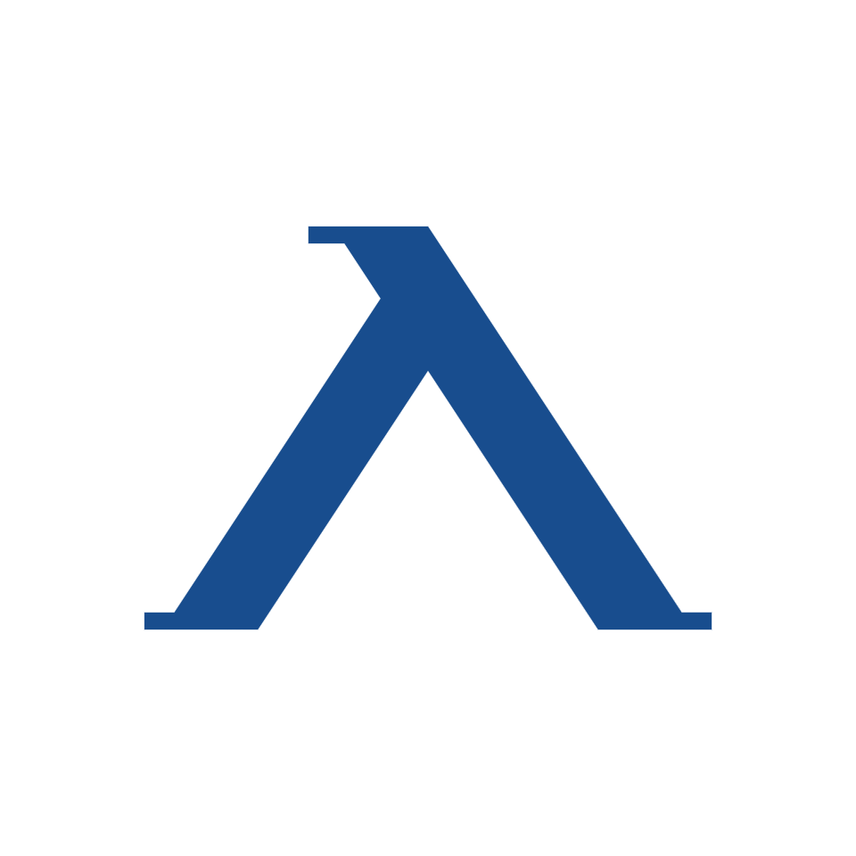 The official logo of PFC Levski.